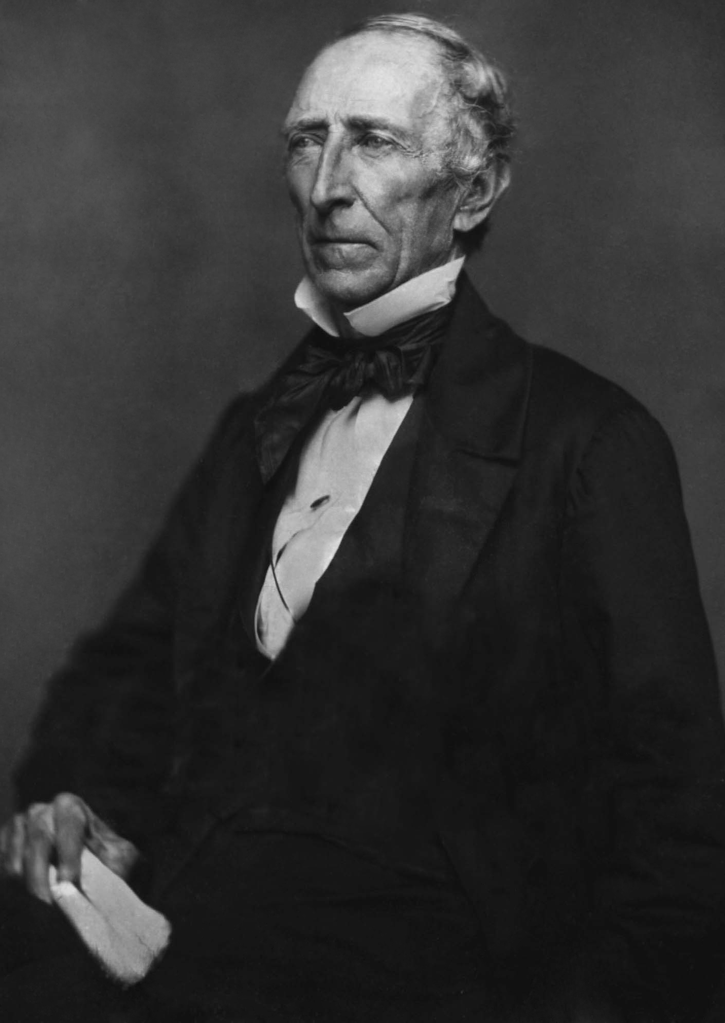 Restored daguerreotype of John Tyler, tenth president of the United States. Library of Congress collection.